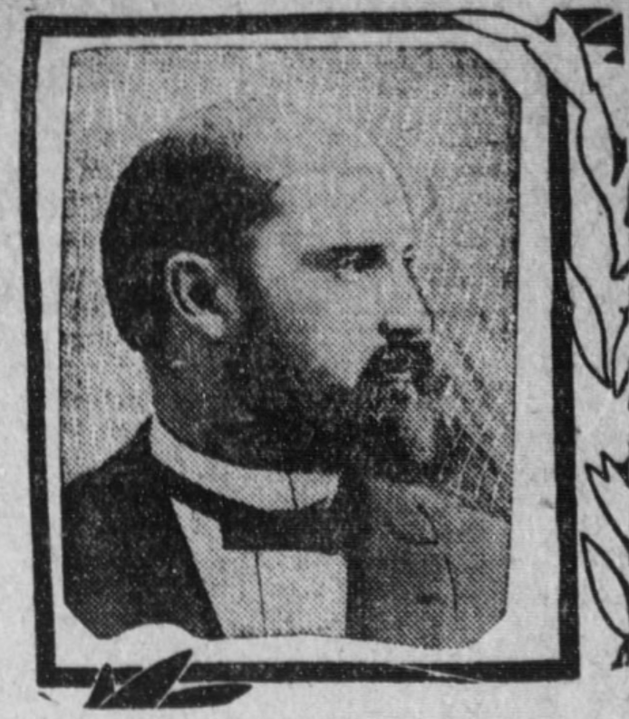 James A. Foshay, Los Angeles school superintendent. Photo from the Los Angeles Herald, March 21, 1909